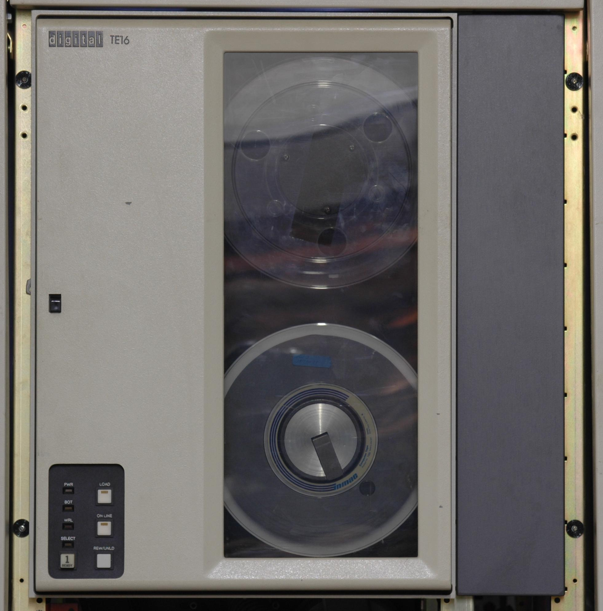 DEC TE16 9-track tape drive. From the collection of the RCS/RI.